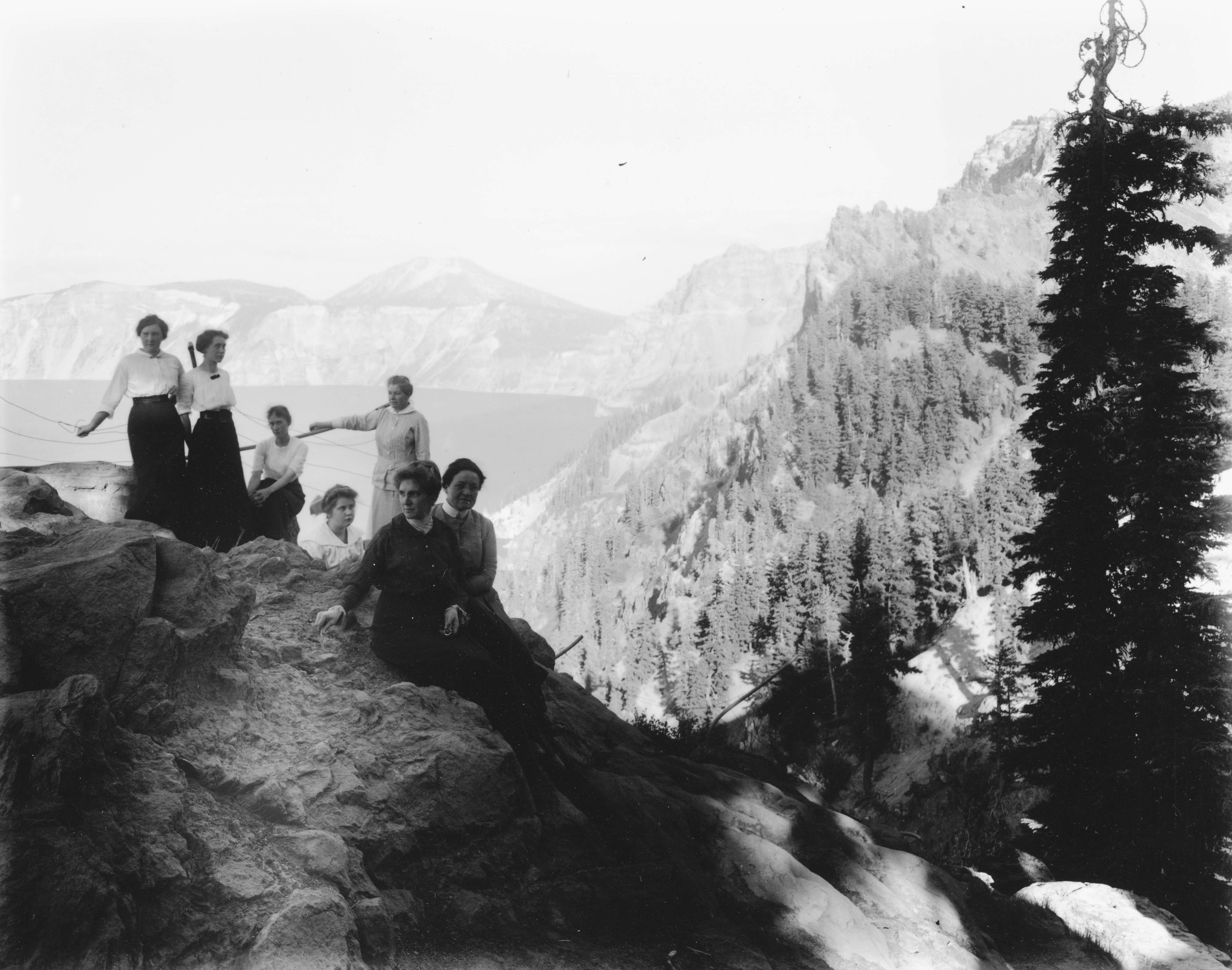 Parkhurst Hotel group Victor Rock, Crater Lake. View from Victor Rock, viewpoint named for Oregon historian Frances Fuller Victor